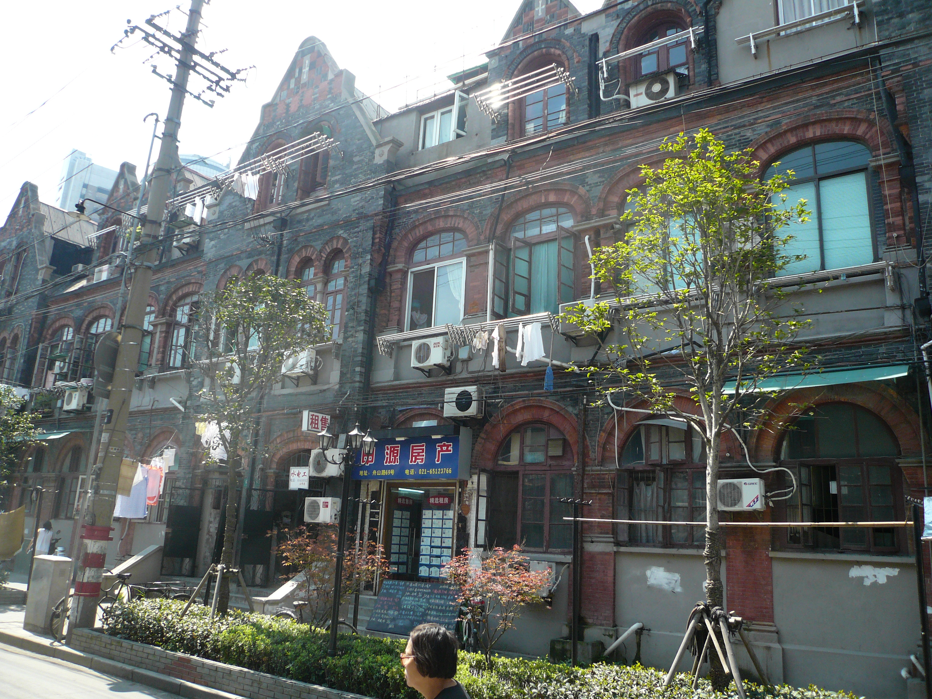 Houses in the former Jewish ghetto, Shanghai, China